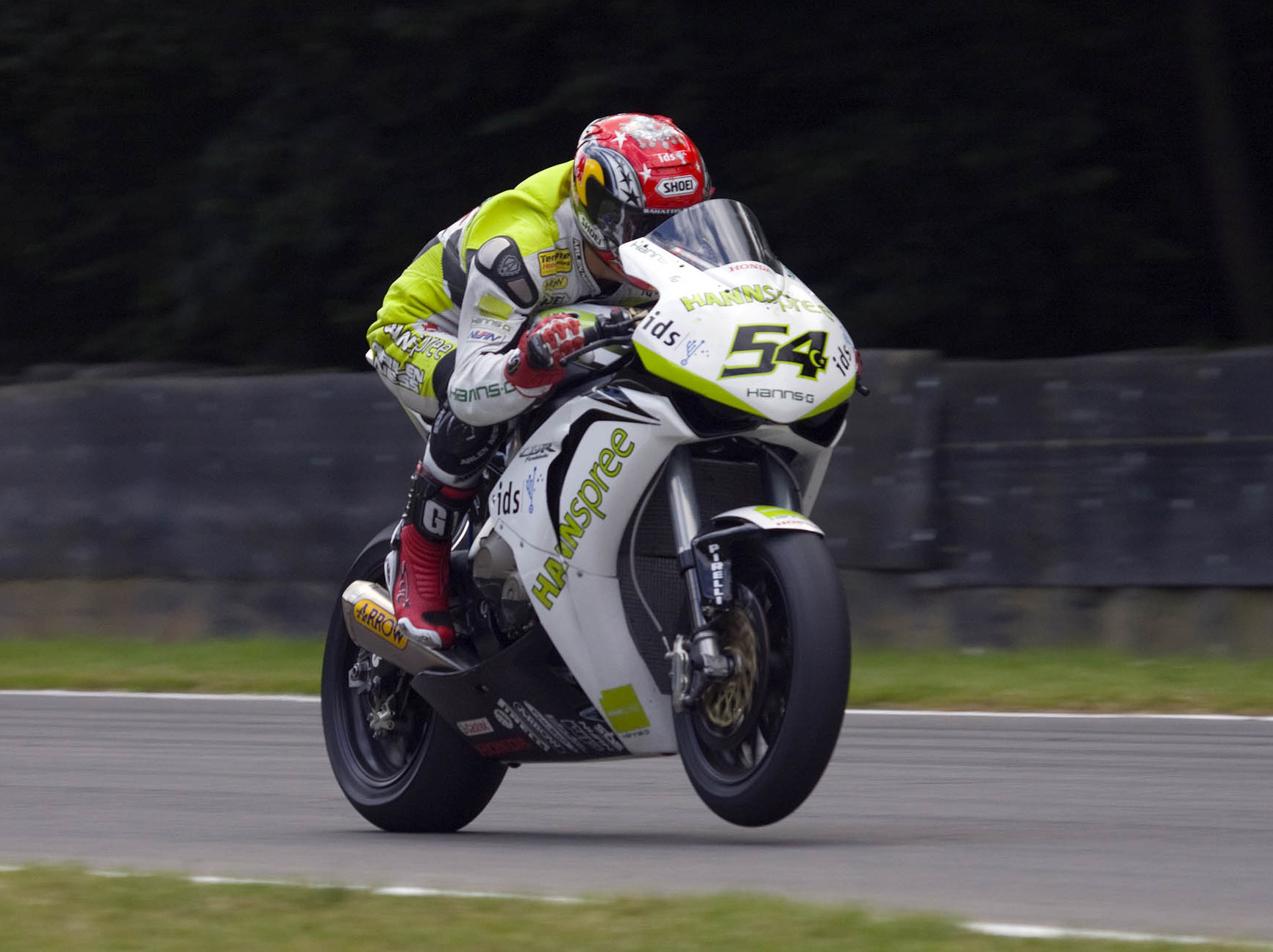 Brands Hatch World Superbike Meeting August 2008 Practice Day. Exiting Stirlings.